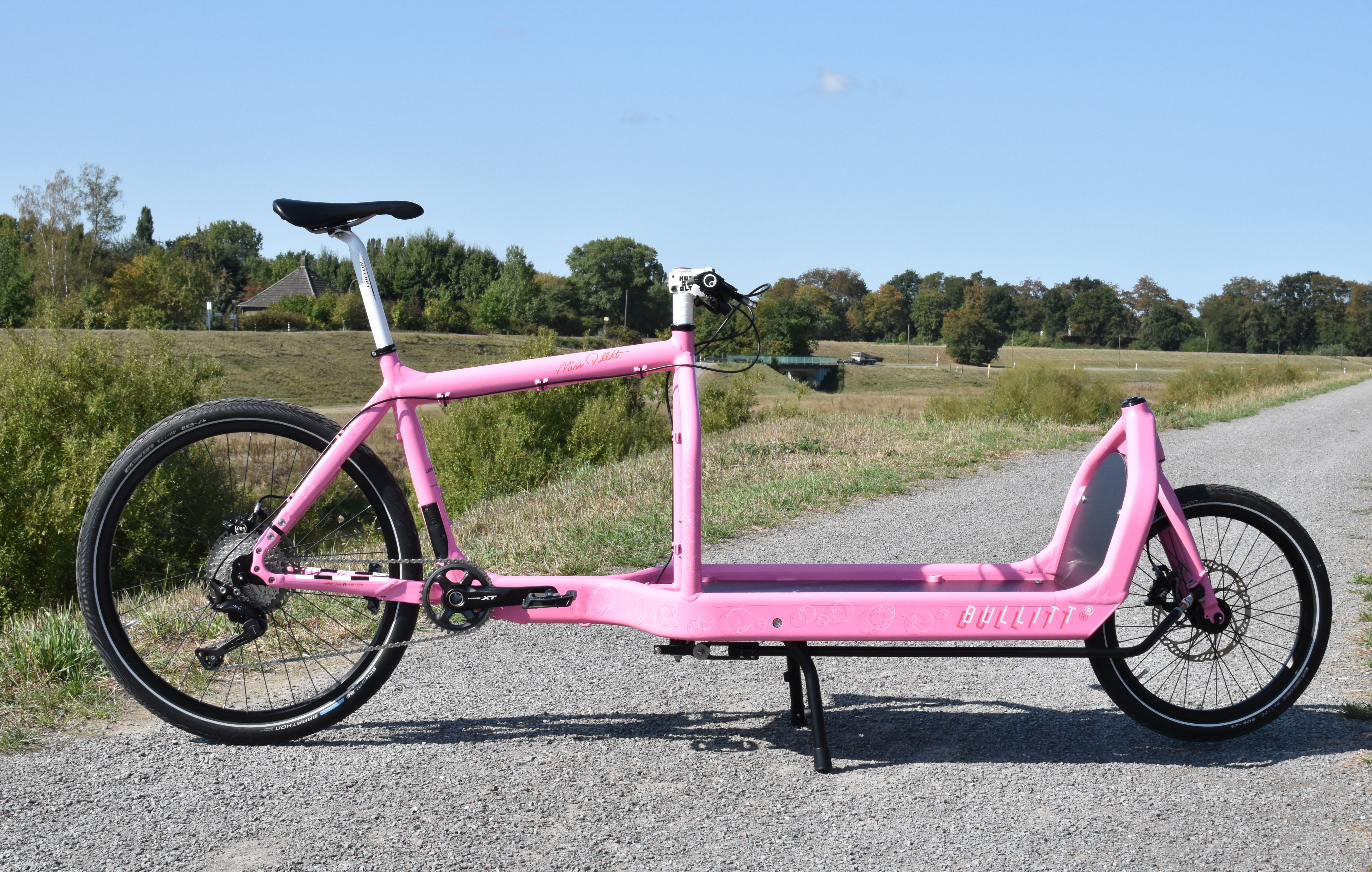 Cargo bike "Bullitt" from Larry vs Harry - Limited special model "Miss Bullitt" for the 10th anniversary of the company